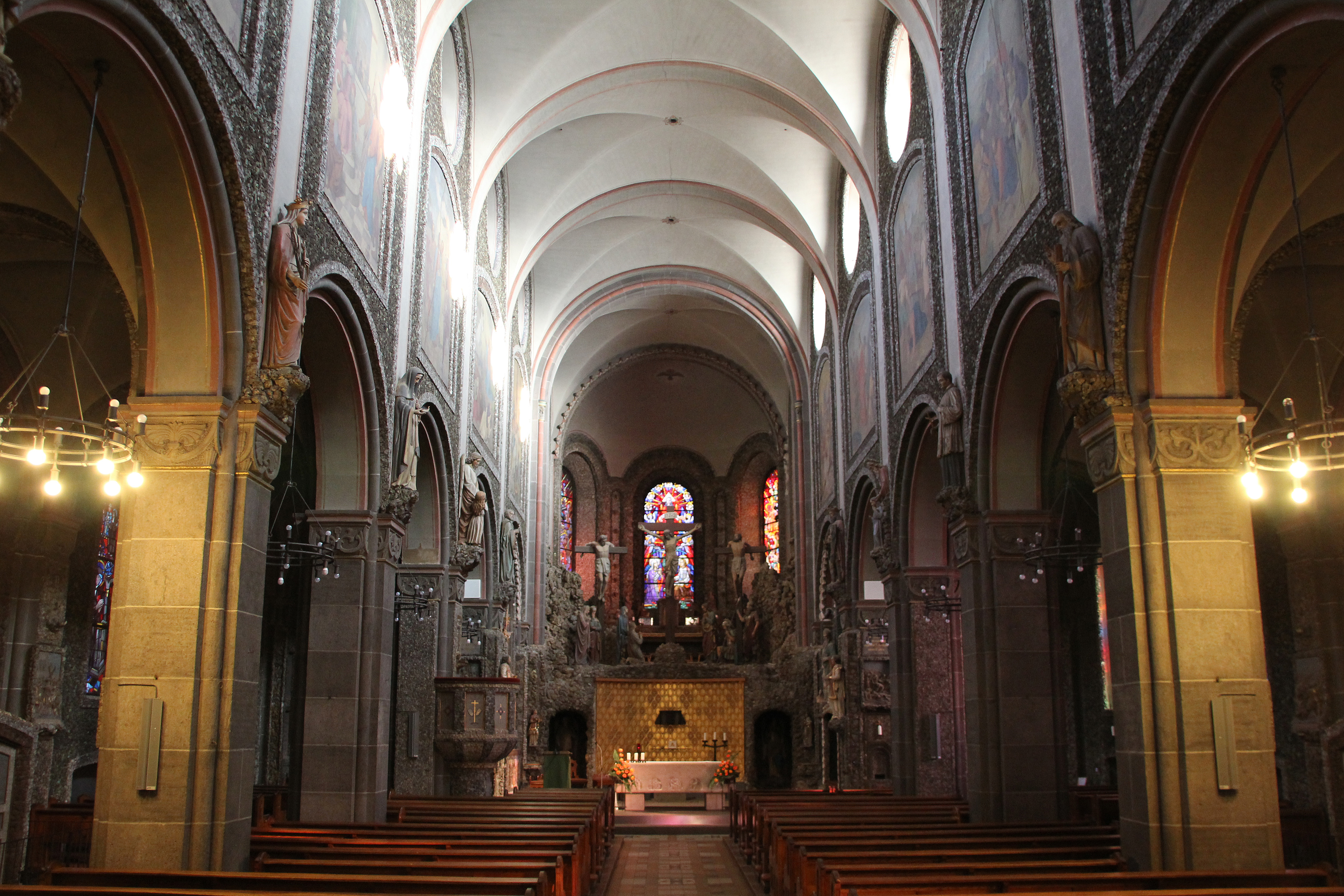 Church St. Nikolaus in Koblenz